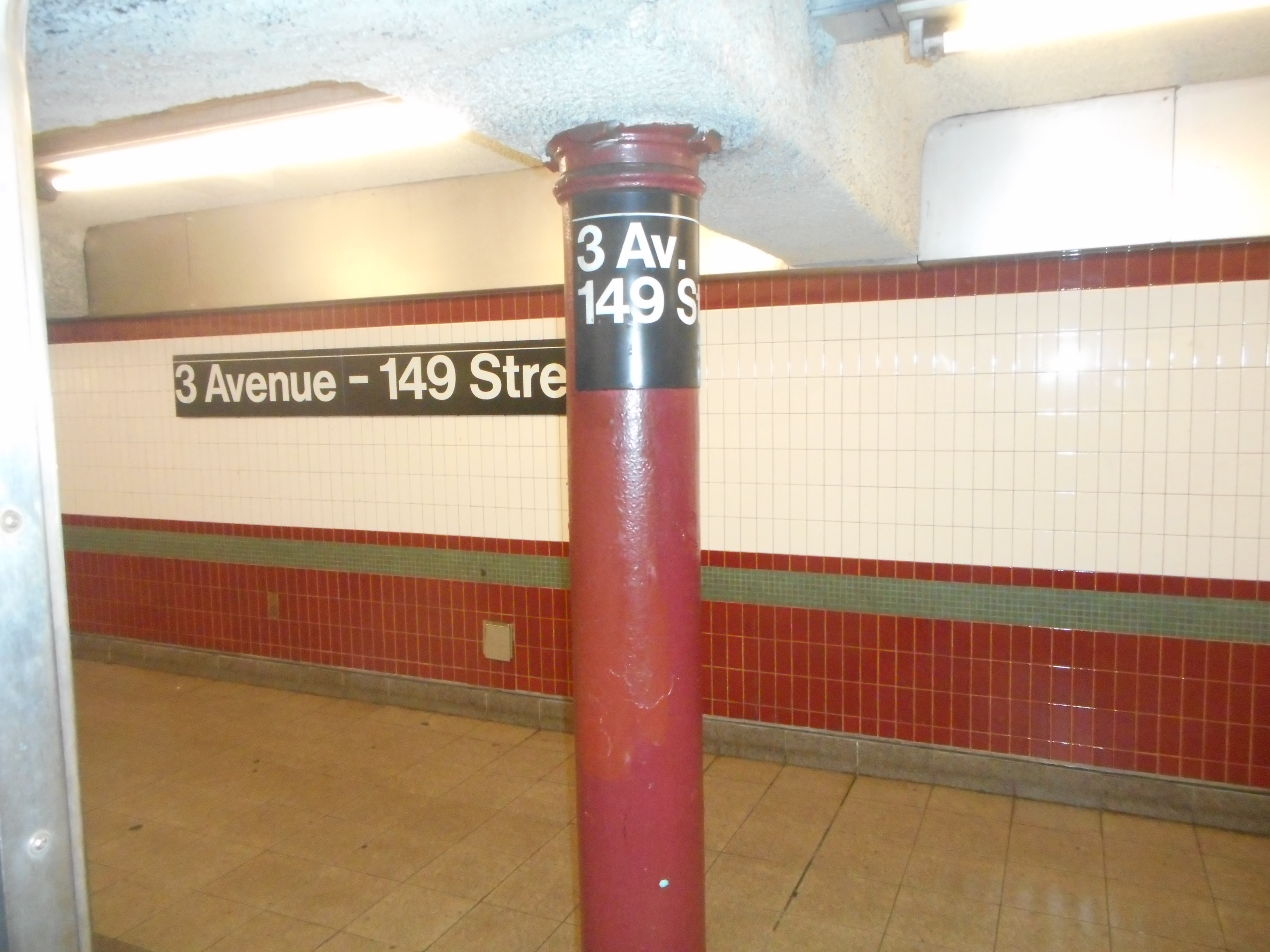 Shot of the Wakefield-bound platform of the Third Avenue-149th Street Subway Station on the IRT White Plains Road Line in The Hub and Mott Haven sections of The Bronx, New York City. Taken from a weekend train that briefly took a stop there in November 2017.